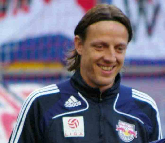 Rene Aufhauser-defender FC Salzburg